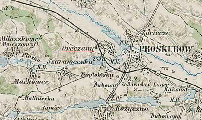 Area around Proskurów (Khmelnitsky) on a military Austrian map